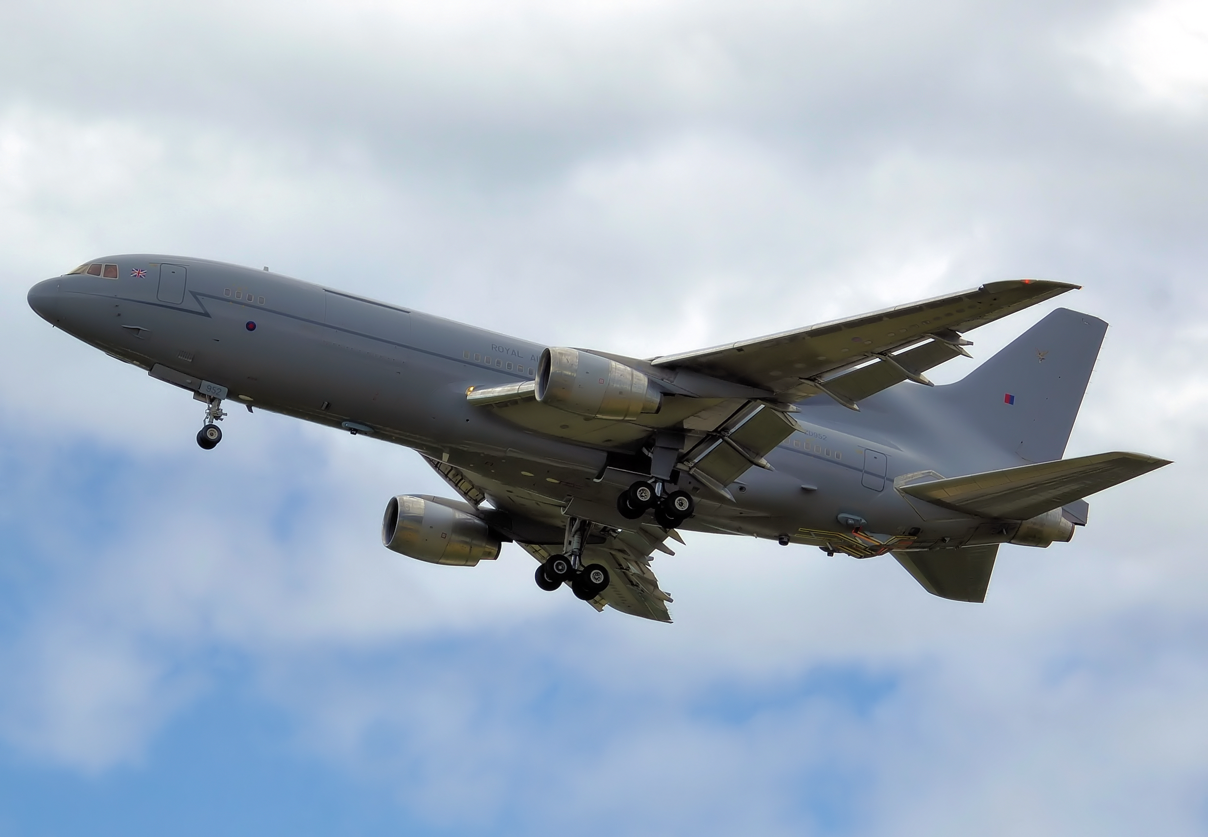 Lockheed L-1011 TriStar KC1 tanker (RAF code ZD952) flies over Kemble Air Day, Kemble Airport, Gloucestershire, England.